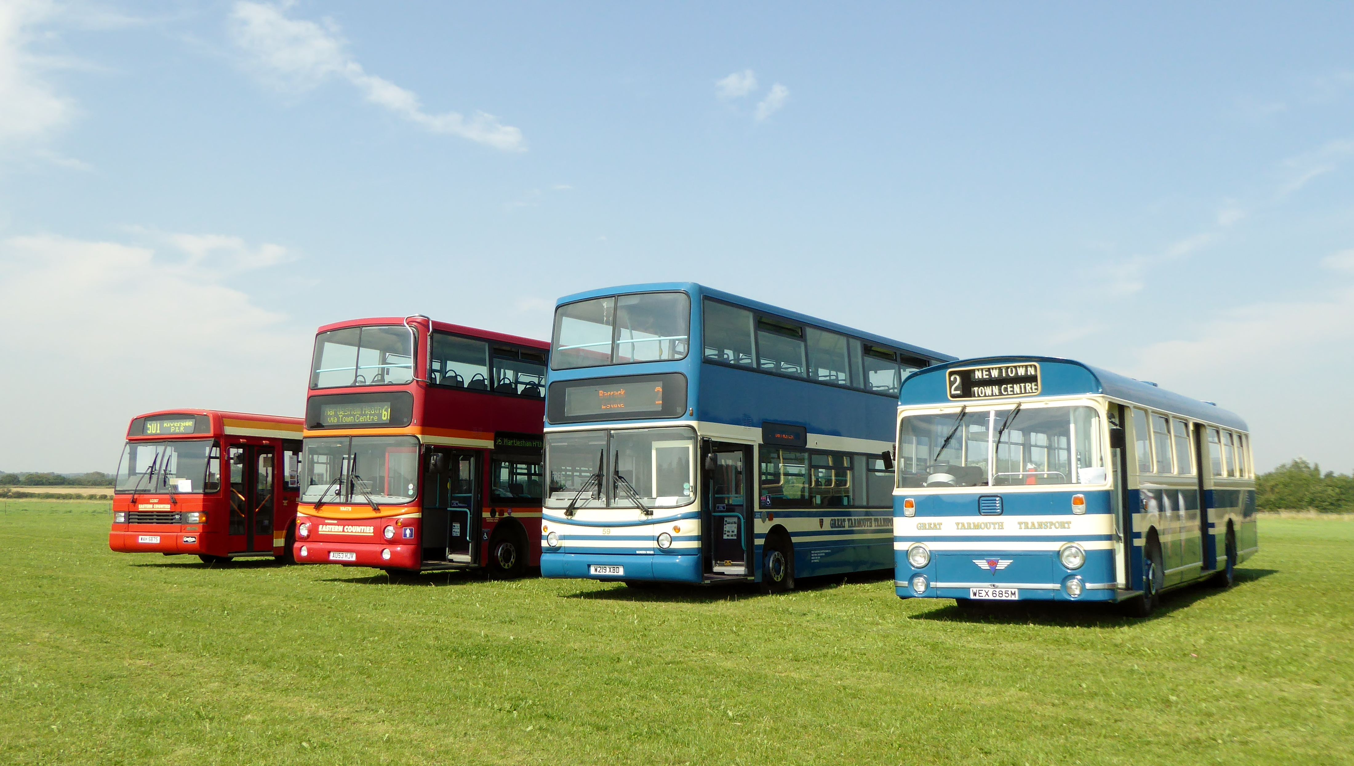 First heritage buses